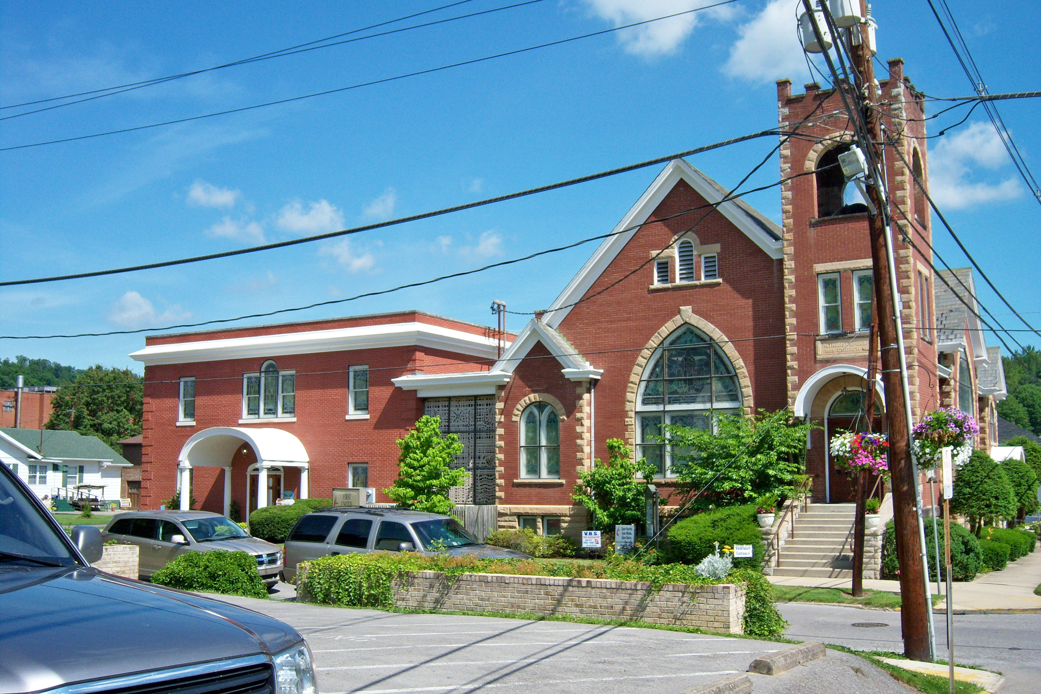 Exterior image of the First United Methodist Church in Paintsville, Kentucky.